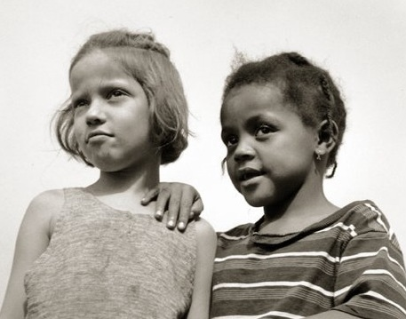 Two young girls at Camp Christmas Seals, Haverstraw, New York (August en:1943). Caption included on USDA site: "Inter-racial activities at Camp Christmas Seals, where children are aided by the Methodist camp service. Camp buddies." Photo credit: Gordon Parks